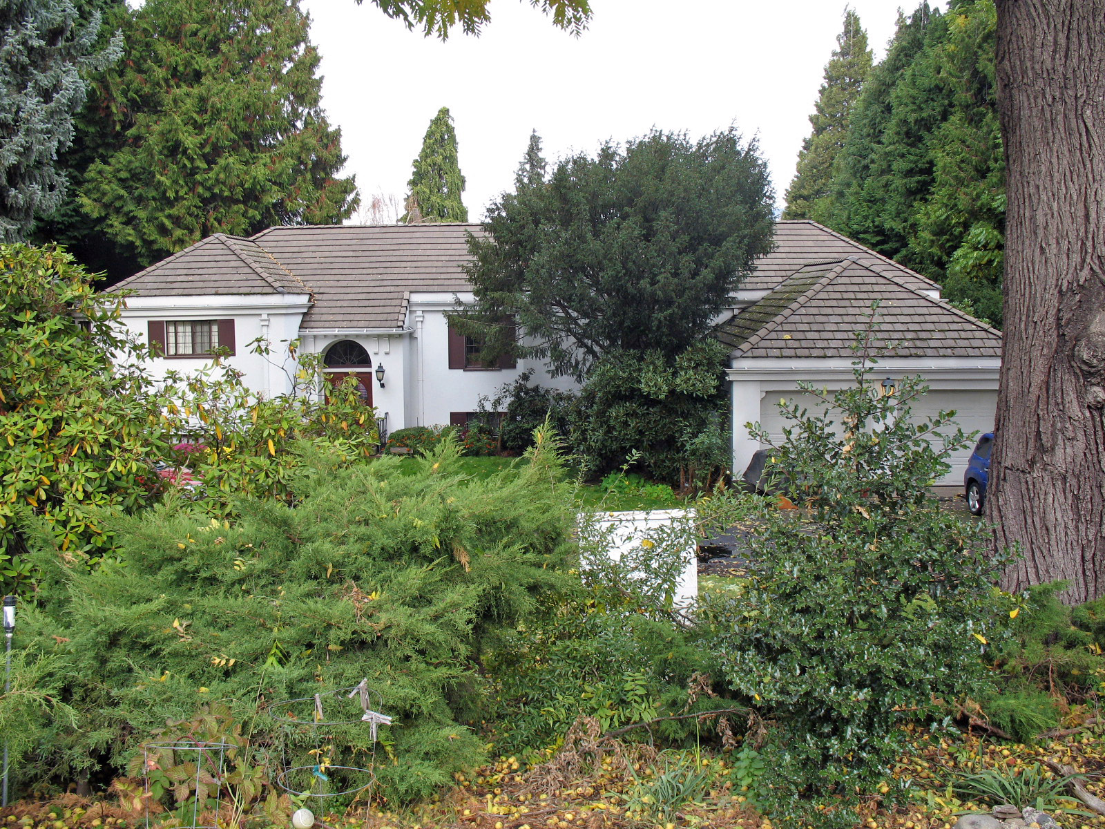 National Register of Historic Places listings in Hood River County, Oregon. Robert and Mabel Loomis House, 1100 W State St, Hood River, OR. Photographed October 28, 2009 from the north side of W State St. near the intersection of 12th St.